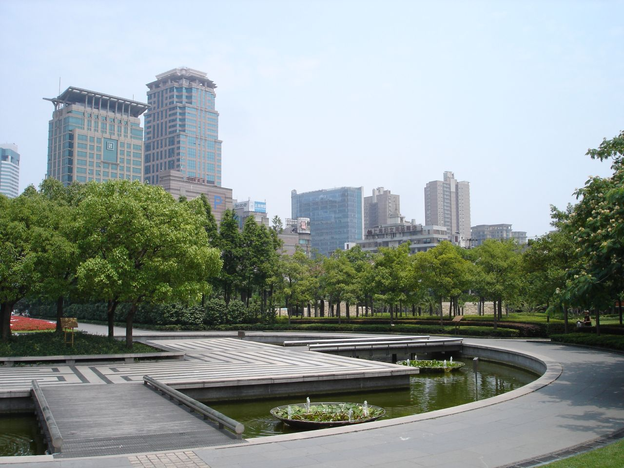 A park in the middle of Shanghai.